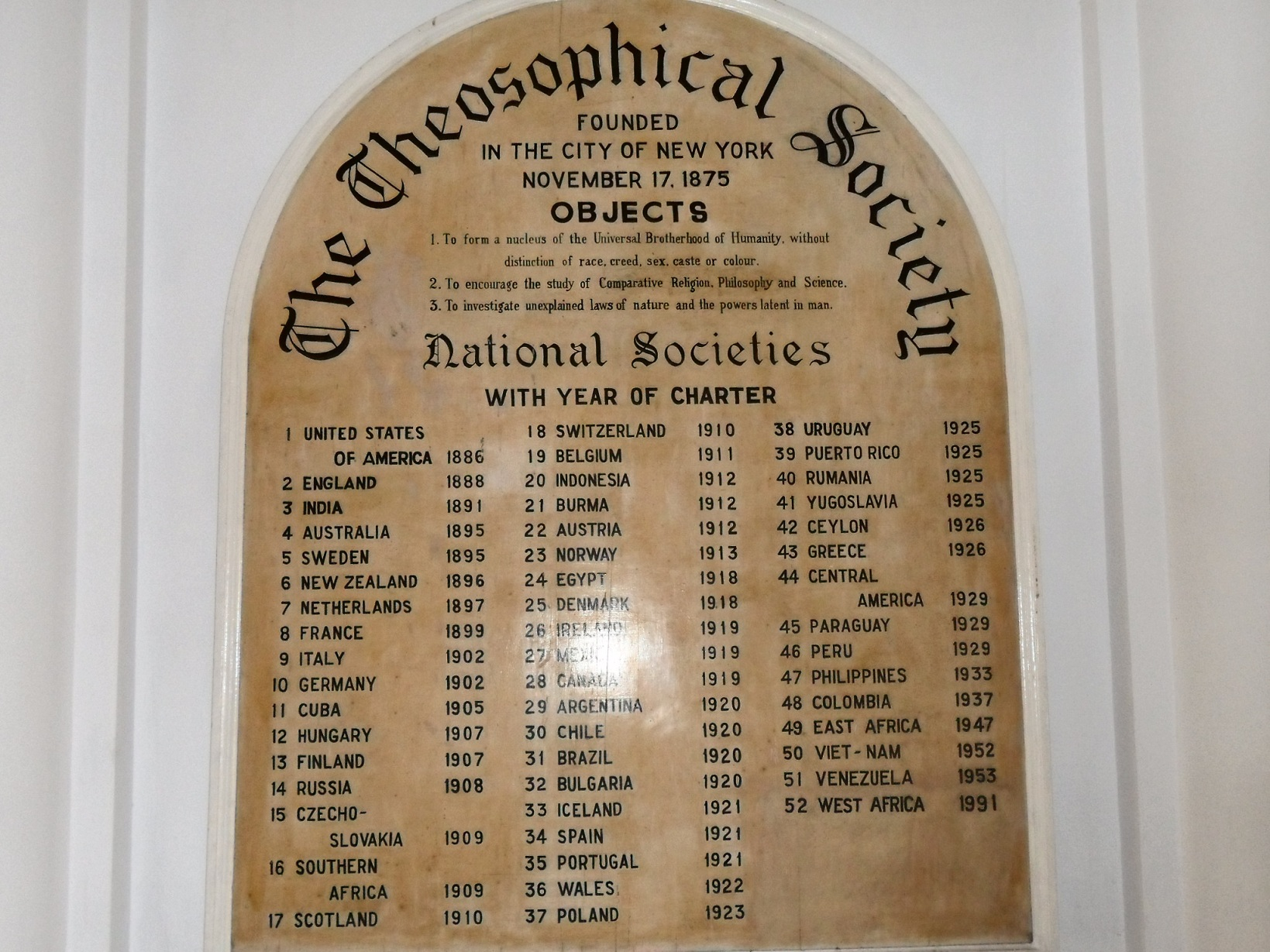 Commemorative plate of Theosophical Society in Chennai, India